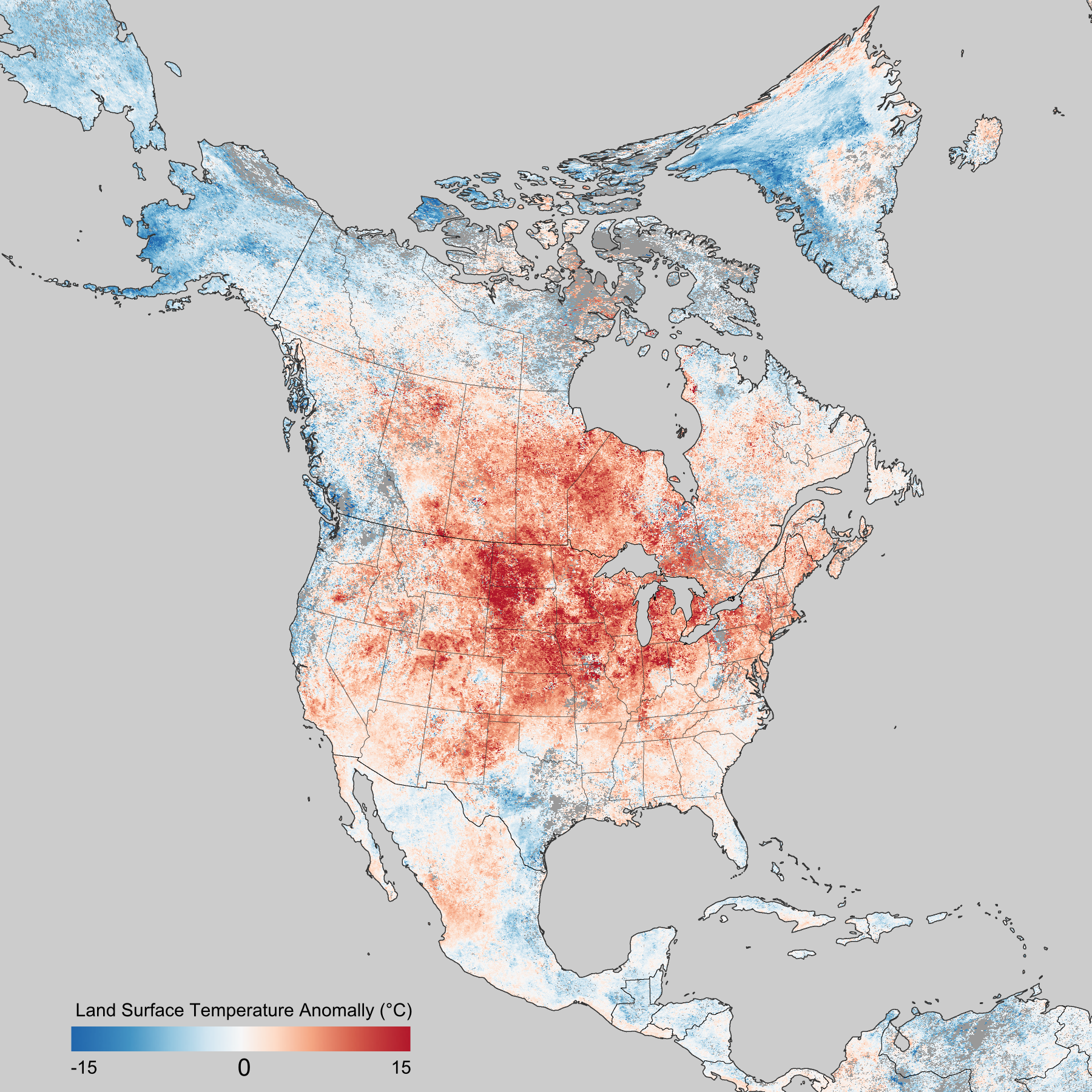 The map depicts land surface temperatures of March 8-15 compared to the average of the same eight day period from 2000-2011. Areas with warmer than average temperatures are shown in red; near-normal temperatures are white; and areas that were cooler than the 2000-2011 base period are blue. Land surface temperatures are distinct from the air temperatures that meteorological stations typically measure. LSTs indicate how hot the surface of the Earth in a particular location would feel to the touch. From a satellite vantage point, the “surface” includes a number of materials that capture and retain heat, such as sand in the desert, the dark roof of a building, or the pavement of a road. As a result, daytime land surface temperature are usually much higher than air temperatures—something that anyone who has walked barefoot across a parking lot on a summer afternoon knows instinctively.